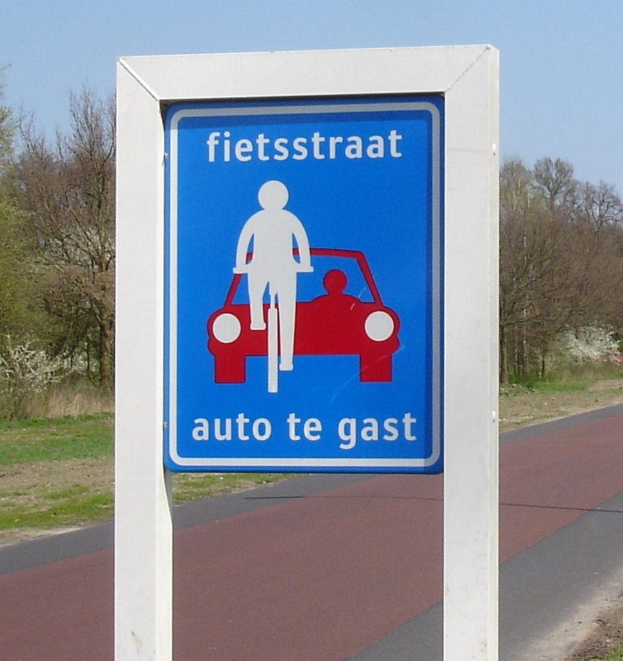 Street mainly for bicycles